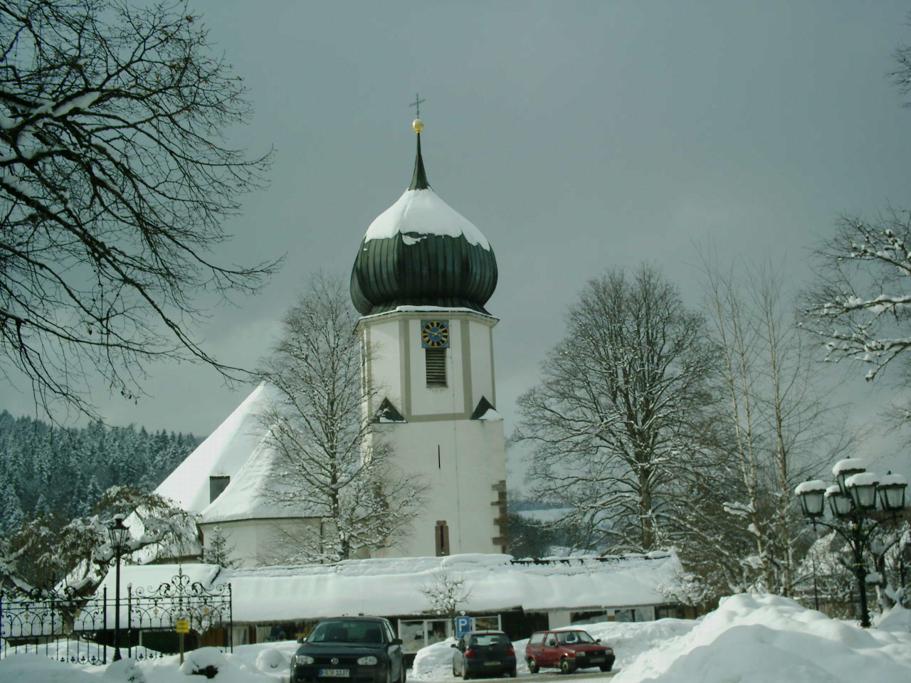 The village's church of Hinterzarten in Baden-Wurttemberg, Germany Lumbaart: La céza co la néf.